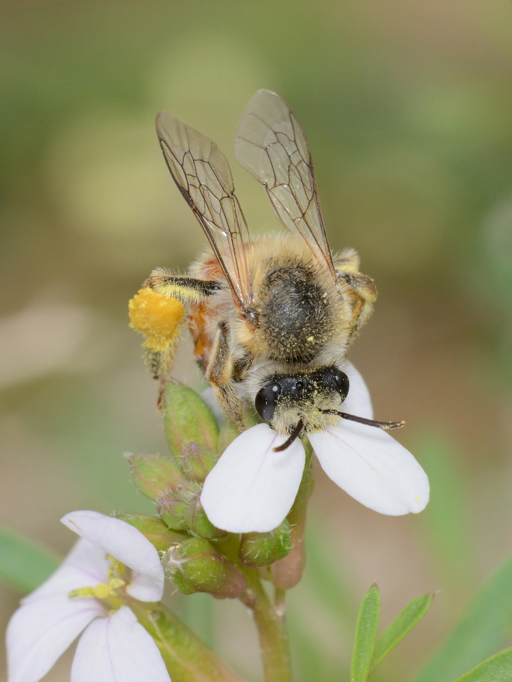 Melitta maura (Pérez, 1896), female foraging on Erucaria sp., Nahal Zin, Arava Valley, Israel, March 15, 2014.